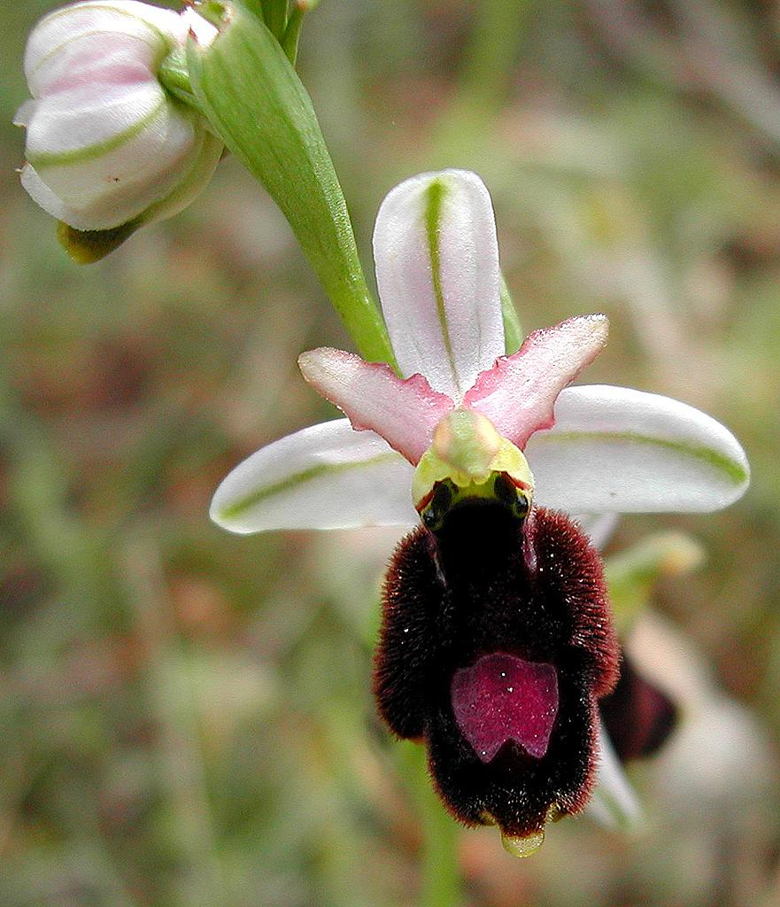 Ophrys balearica